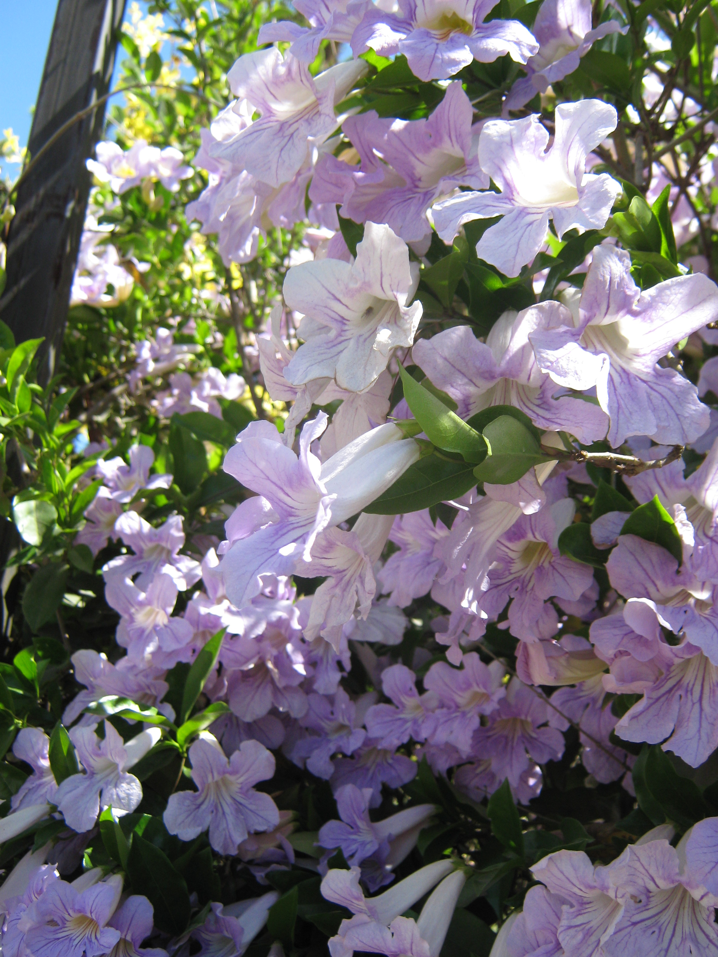 Bignonia callistegioides